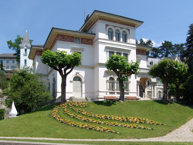 Faure museum house from 1902, Genoese style, also called "Villa of Chimeras."